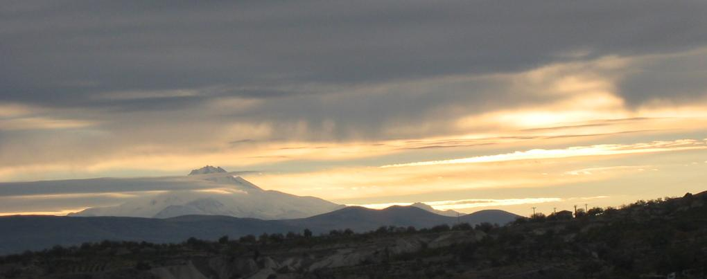 Mount Erciyes (Cappadocia, Turkey)